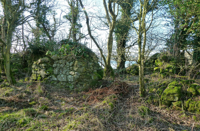 Martnaham Castle ruins, East Ayrshire. The castle remains still show the layout of a causeway leading to a building with 3 main rooms. It is located on the south bank, on a promontory which may well have been an island when the castle was built.